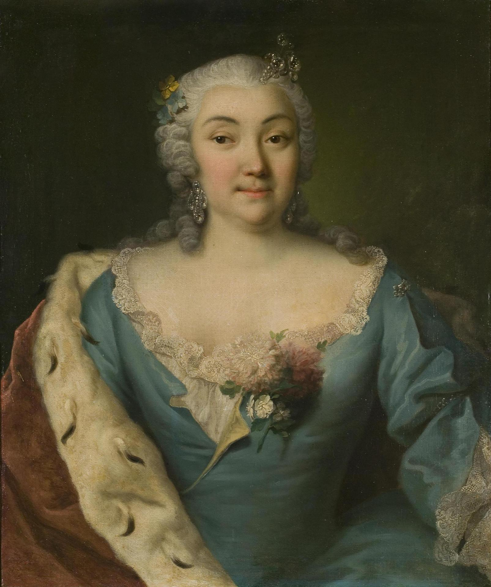 Portrait of Alexandra Kurakina (1711-1786)